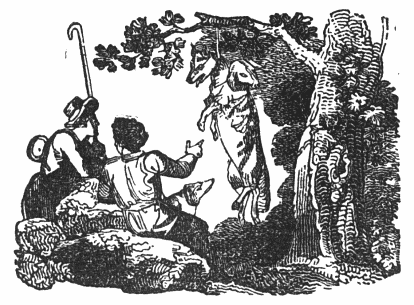 The wolf in sheep's clothing, hanged, is discussed by two shepherds.